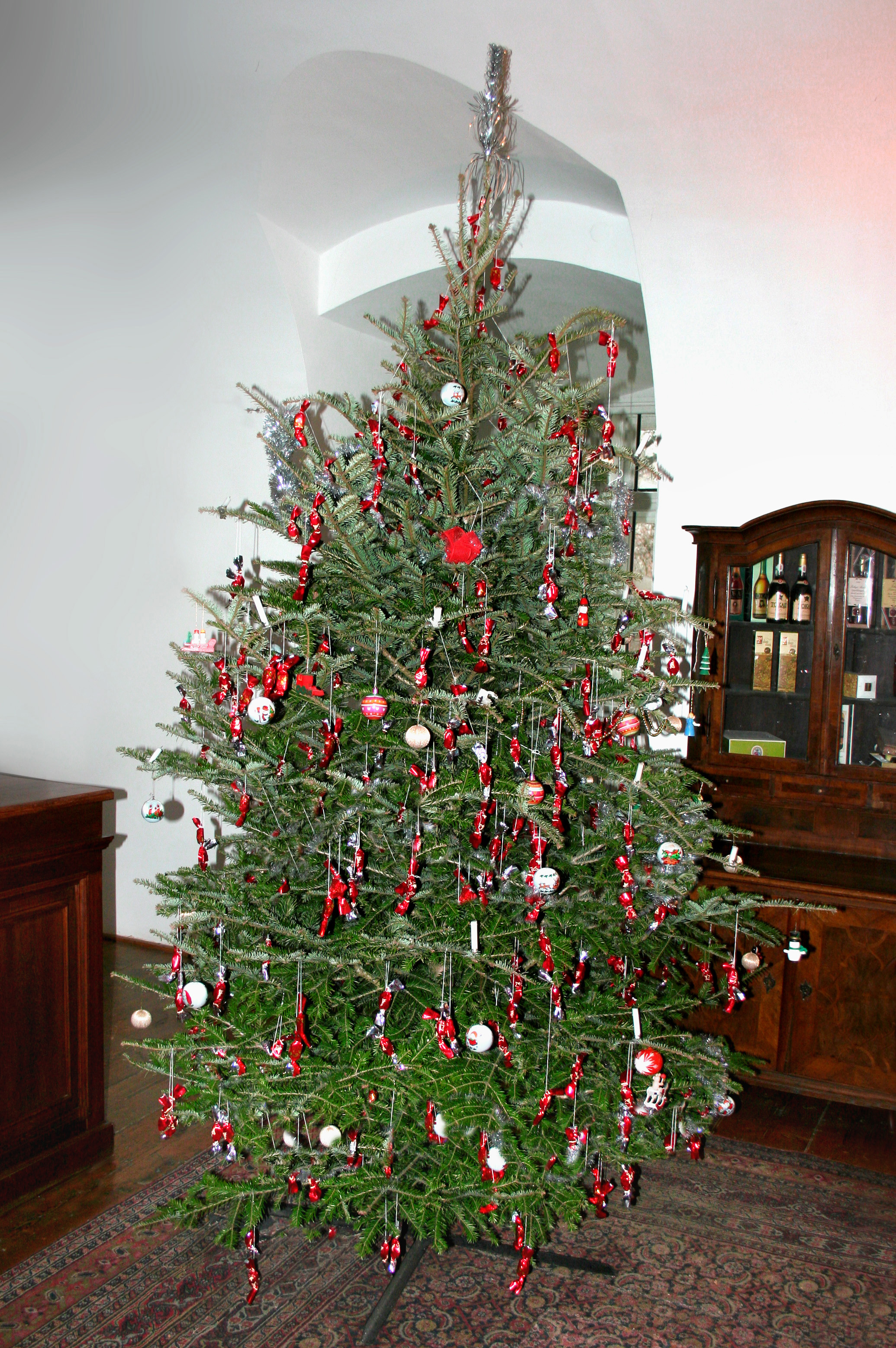 Classic vintage Hungarian Christmas tree, Castle Sarospatak, XV. century room